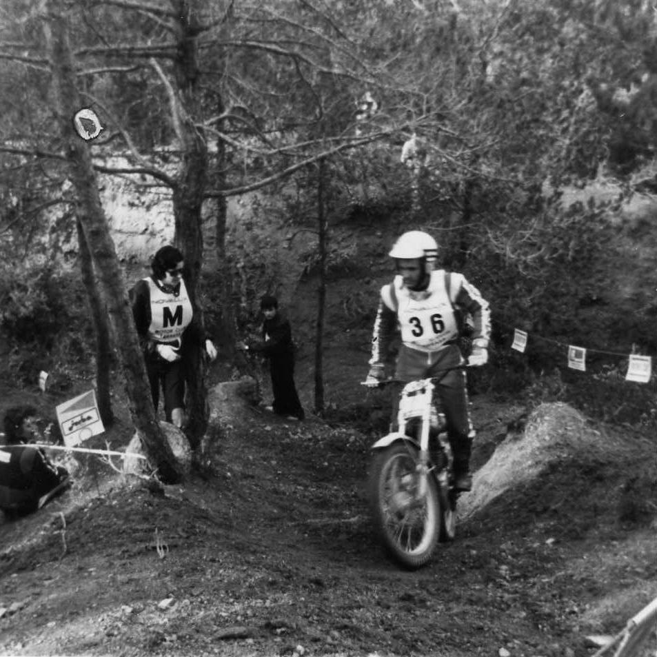 Yrjö Vesterinen with his Bultaco Sherpa at XII "Trial de Sant Llorenç" in Matadepera (Catalonia) on March 12, 1978. It was the 5th race of the Trial World Championship. He finished 6th.This was the section #15, near "La Barata" (close to the road from Matadepera to Talamanca).